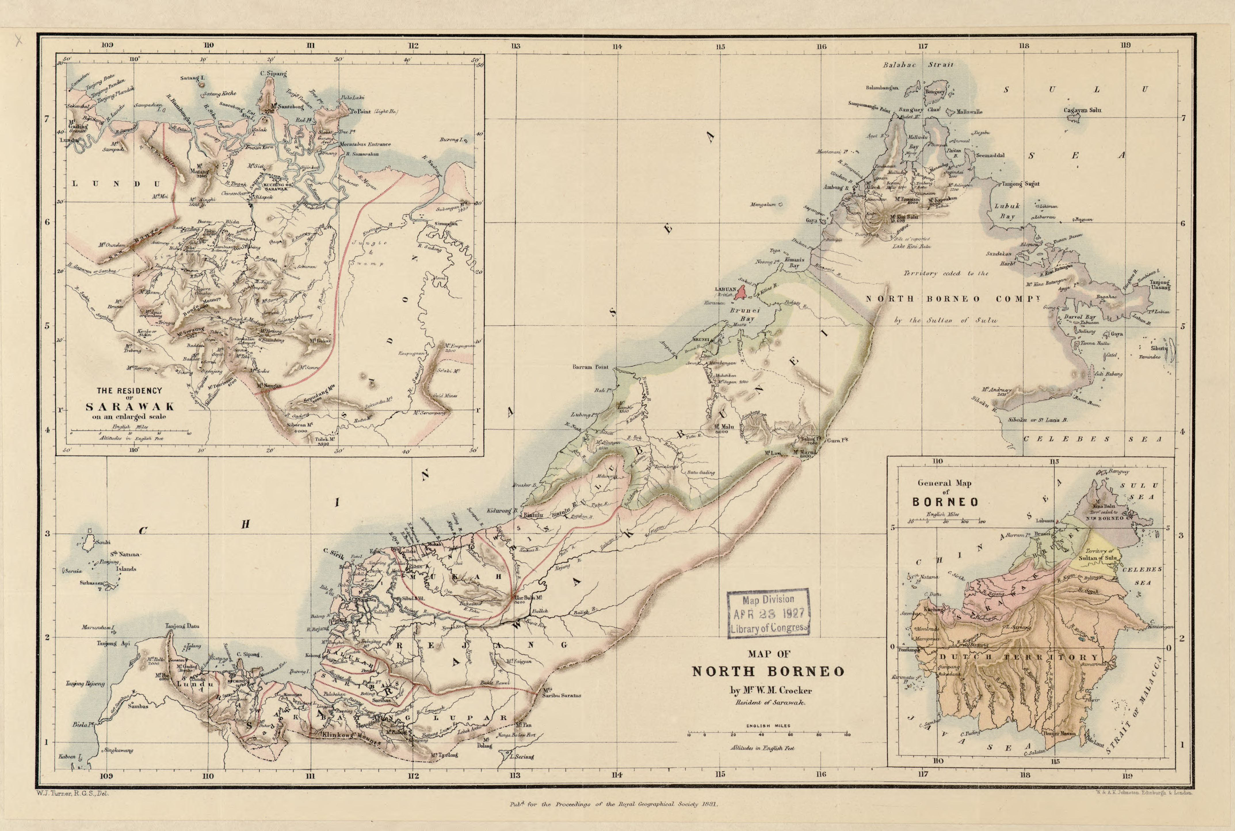 Covers Brunei, Sabah, and northern Sarawak. Relief shown by hachures and spot heights. "W.J. Turner, R.G.S., Del." Altitudes in English feet. Published for the Proceedings of the Royal Geographical Society, 1881. Available also through the Library of Congress Web site as a raster image. Includes inset maps: The residency of Sarawak; General map of Borneo.